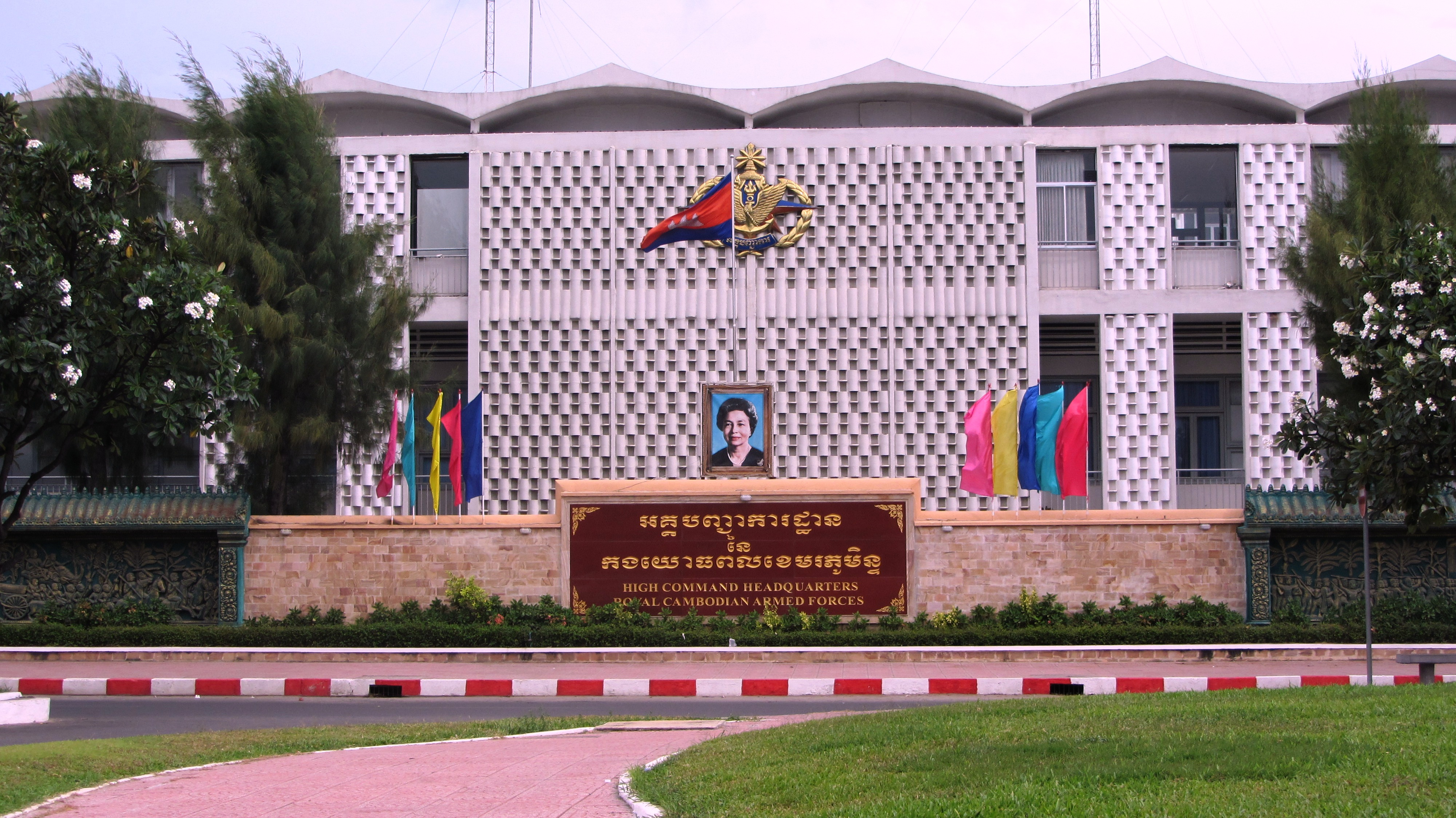 government building